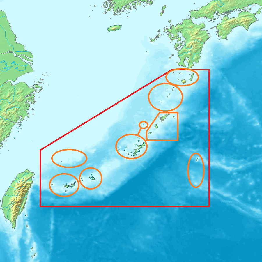 Extents of the islands and Nansei Shoto(inside of red line).